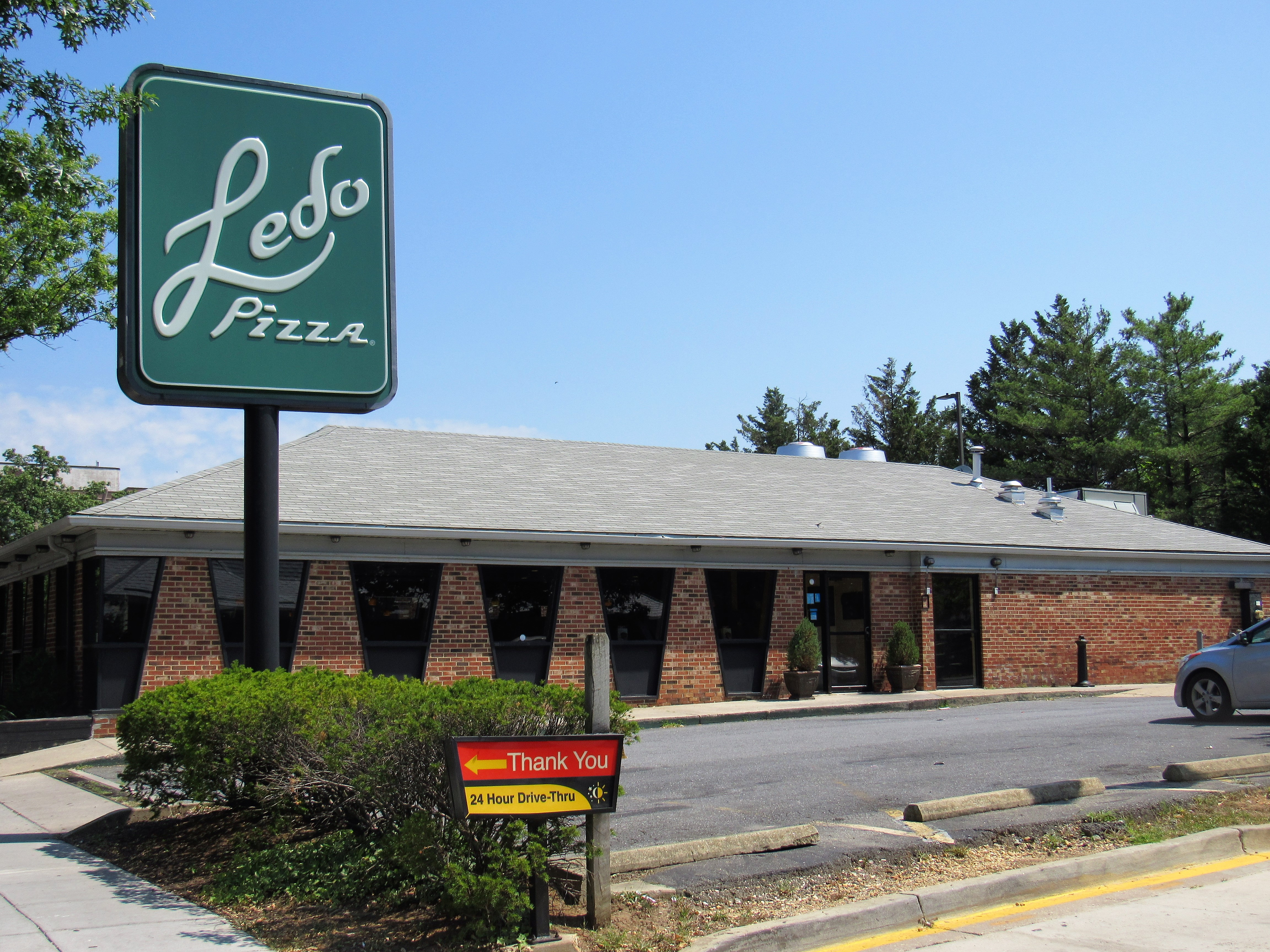 Ledo Pizza on Georgia Avenue, NW, in Washington, D.C.